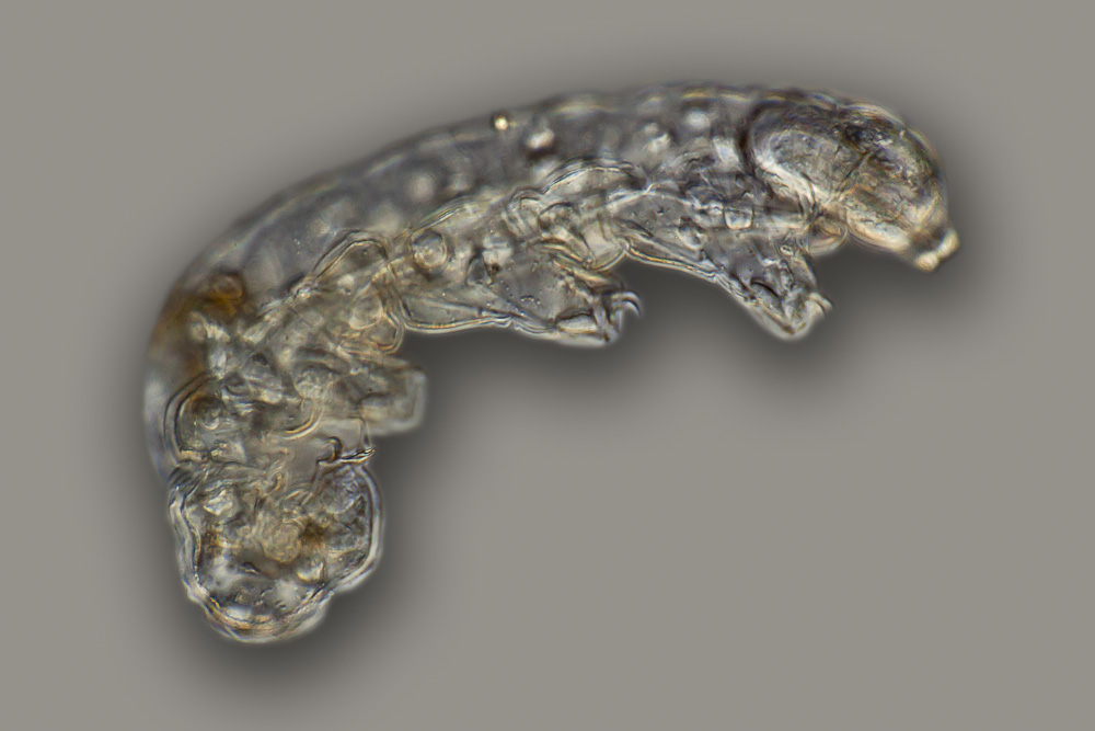 Tardigrades (commonly known as waterbears or moss piglets)